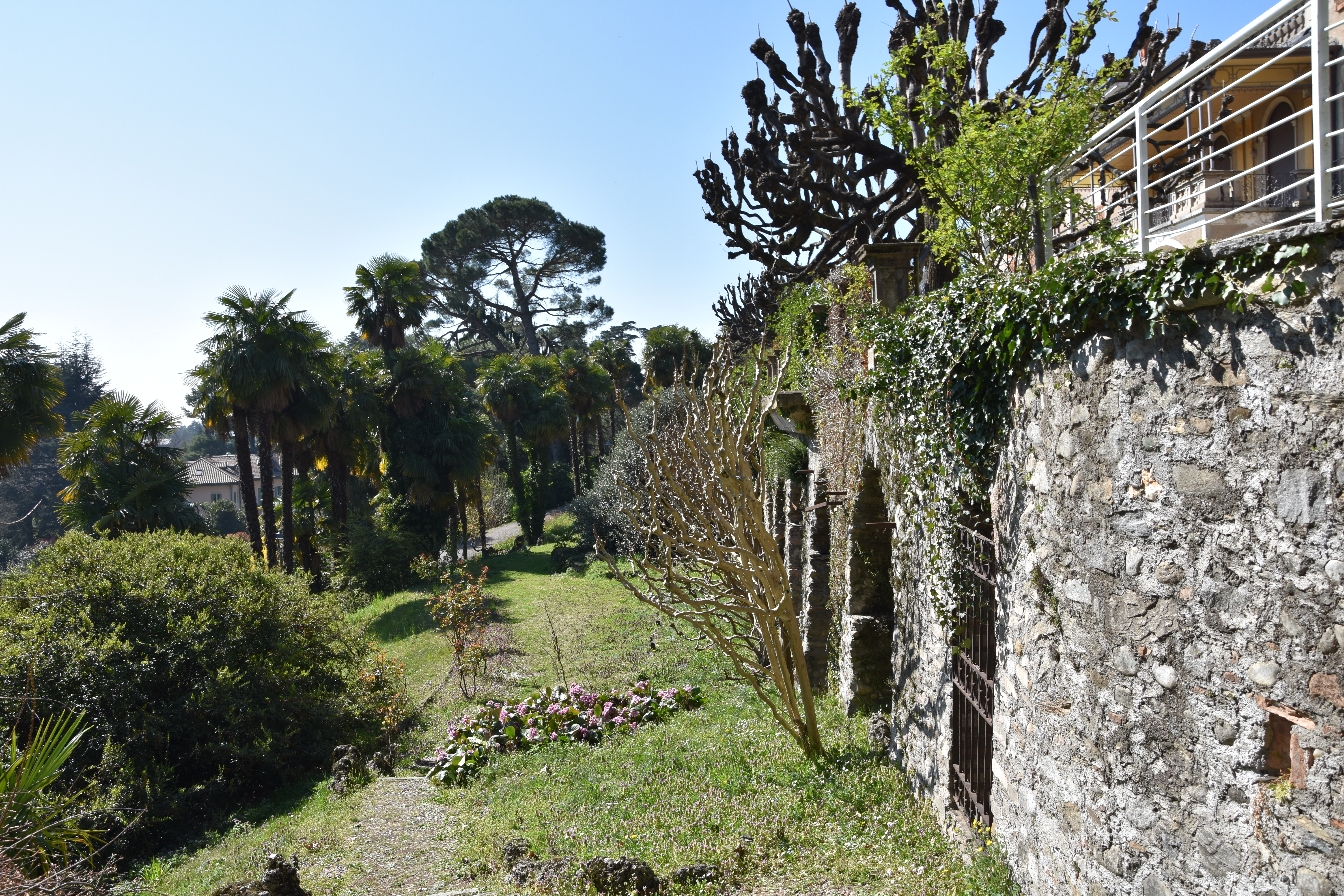 The garden of Villa Mylius in Varese, Italy